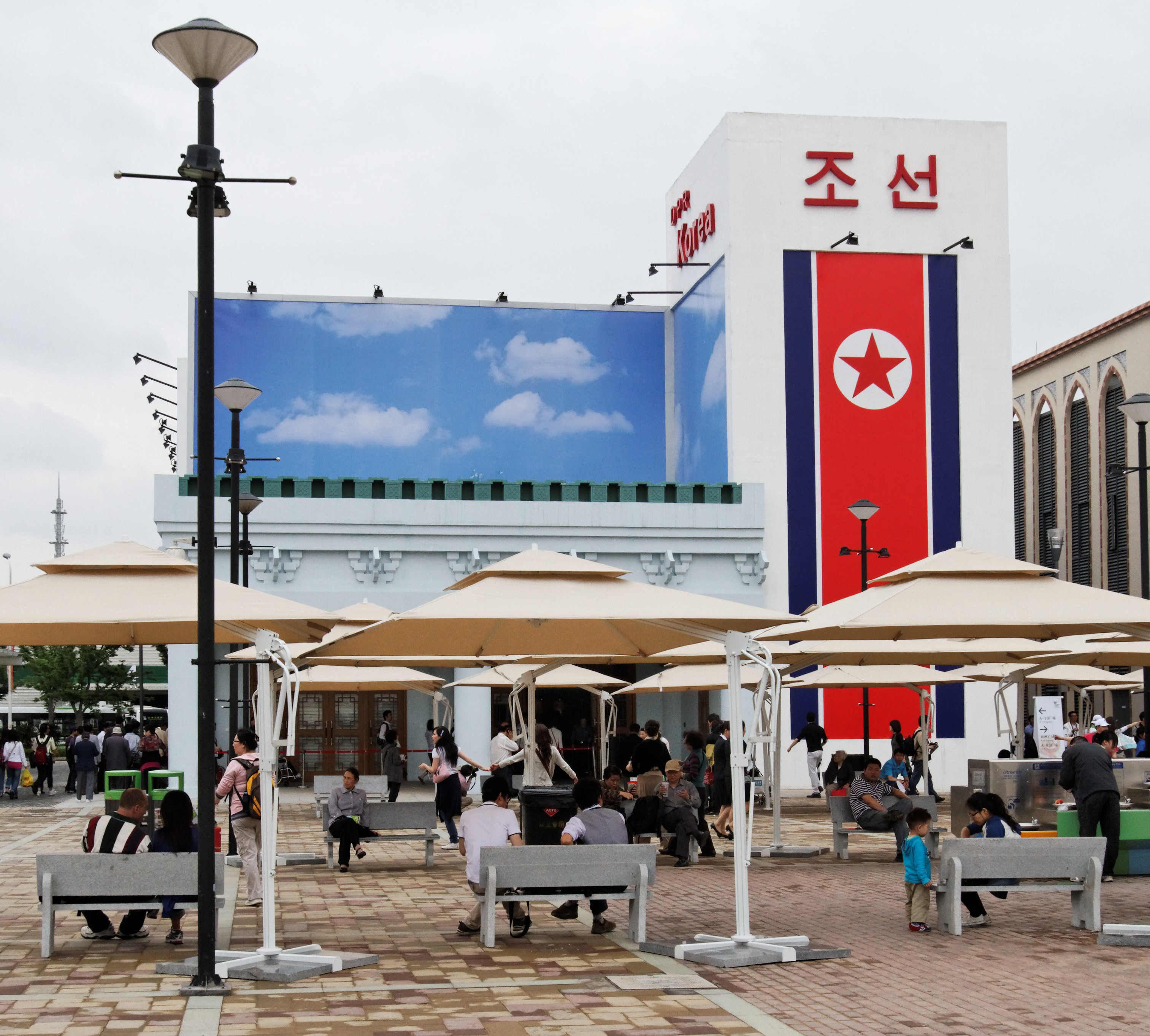 North Korea Pavilion of Expo 2010, front view